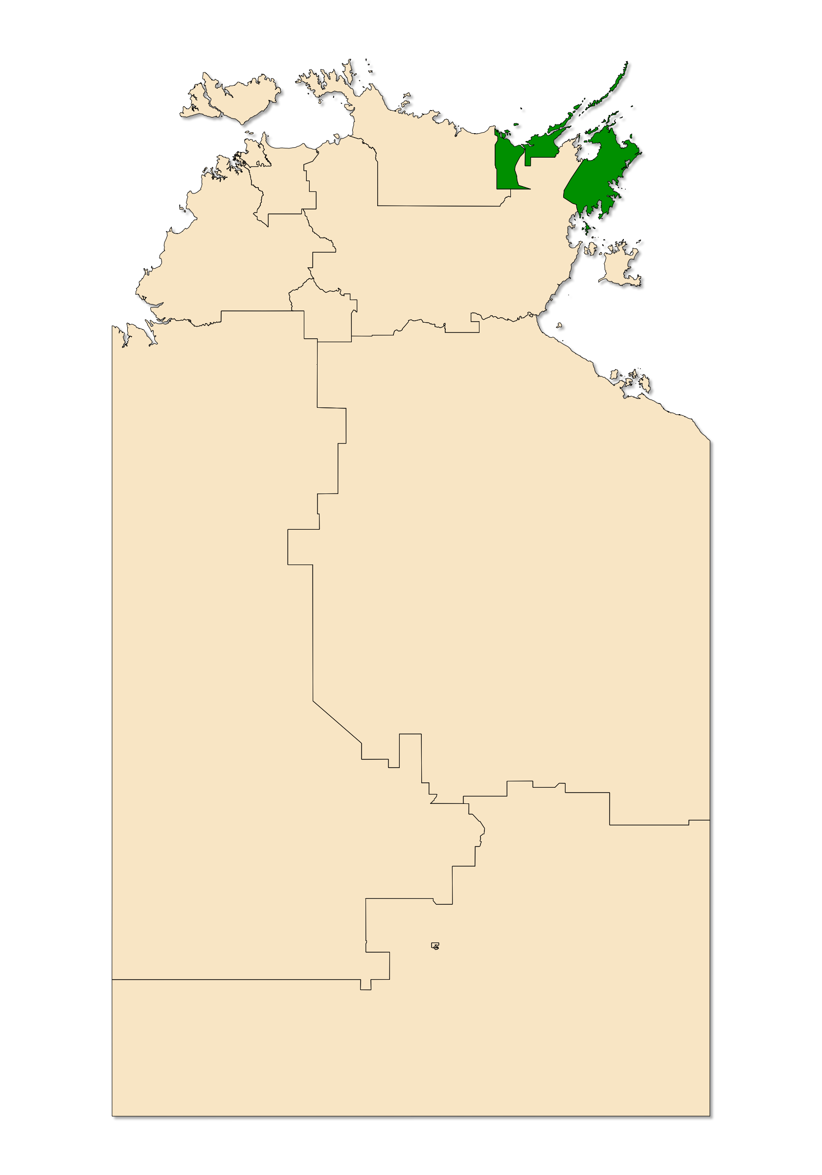 Location of the electoral division of Nhulunbuy in the Northern Territory, Australia.